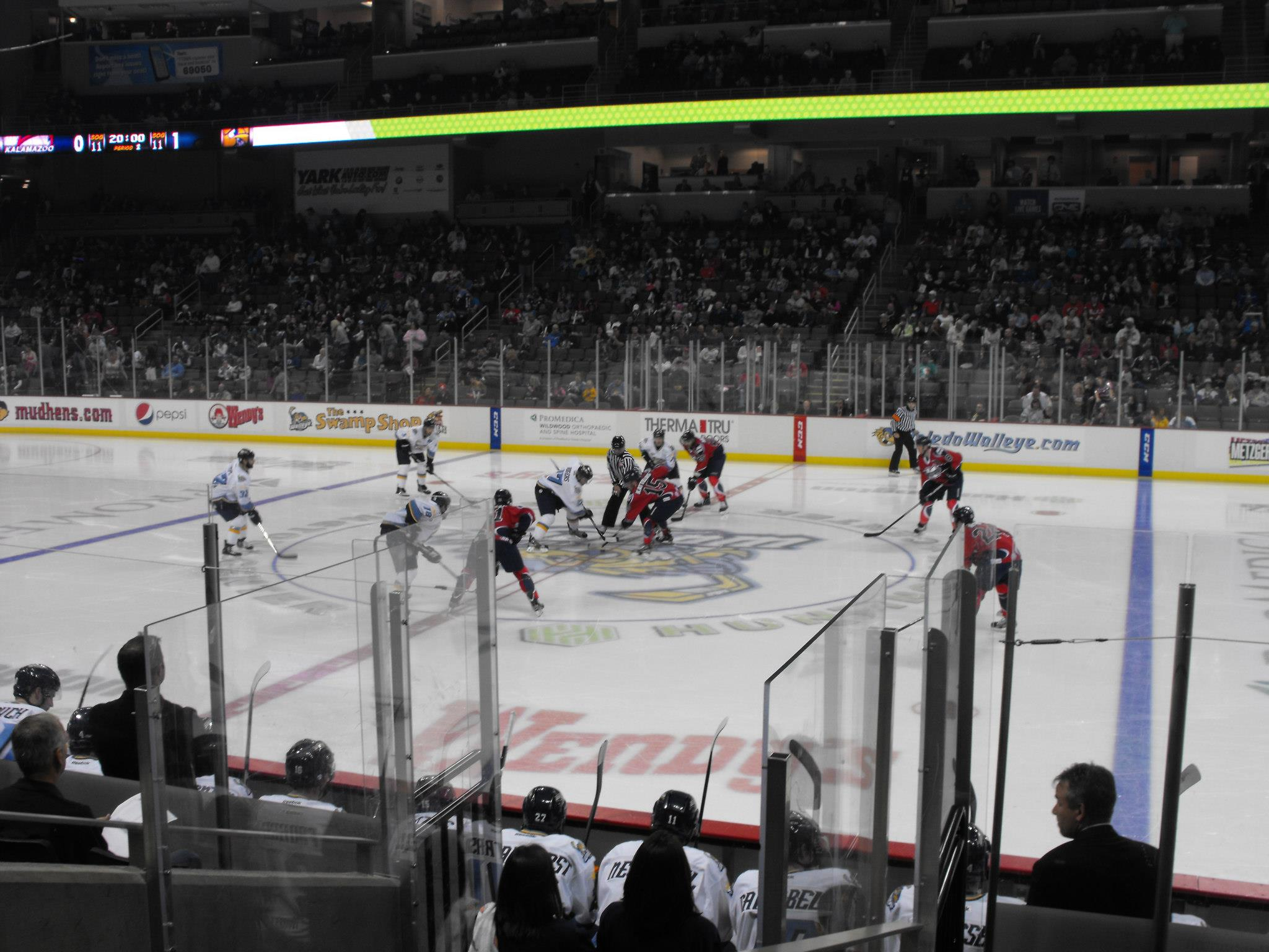 Kalamazoo Wings at Toledo Walleye, faceoff, October 2012